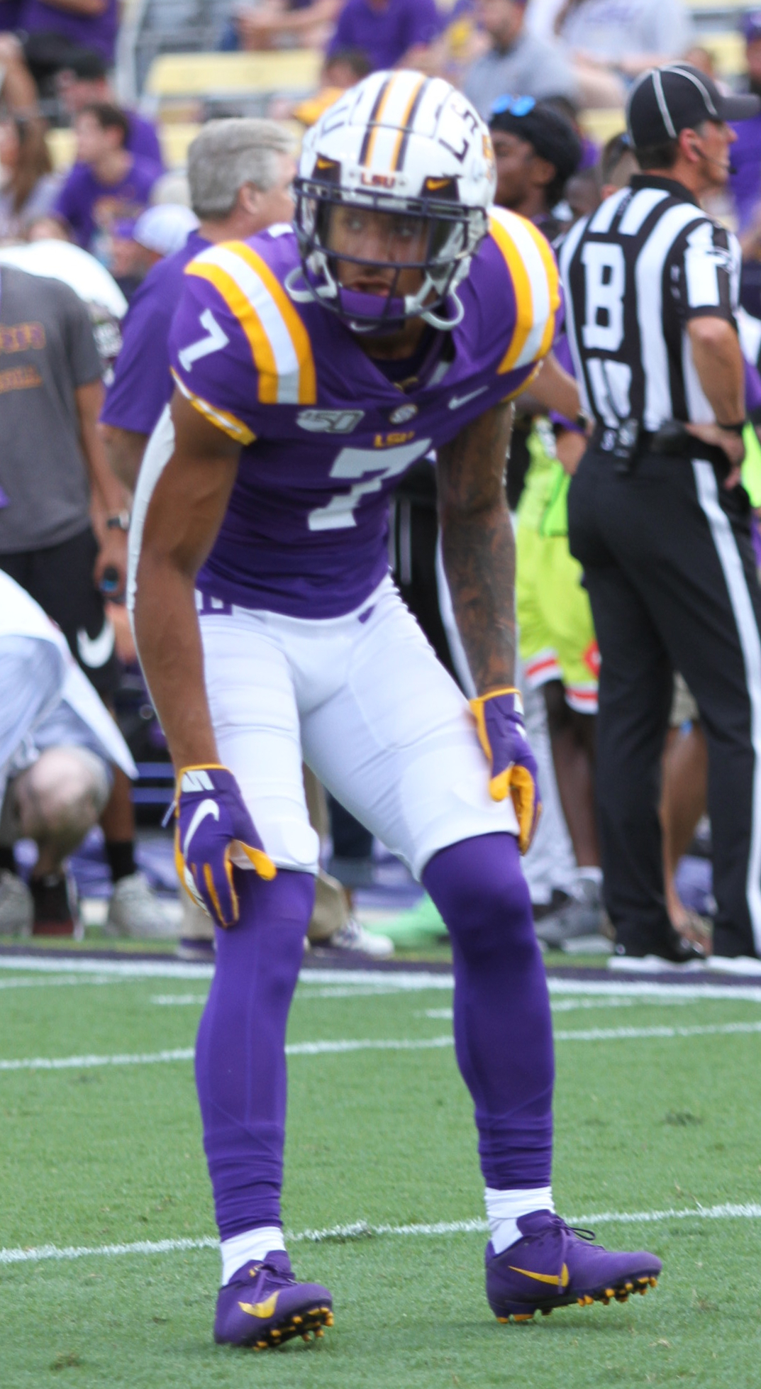 Grant Delpit, #7, Safety, LSU Tigers vs Northwestern LA Demons, September 14, 2019, Tiger Stadium, Baton Rouge, Louisiana, Tammy Anthony Baker, Photographer @tabinla @tmabaker @realgrantdelpit